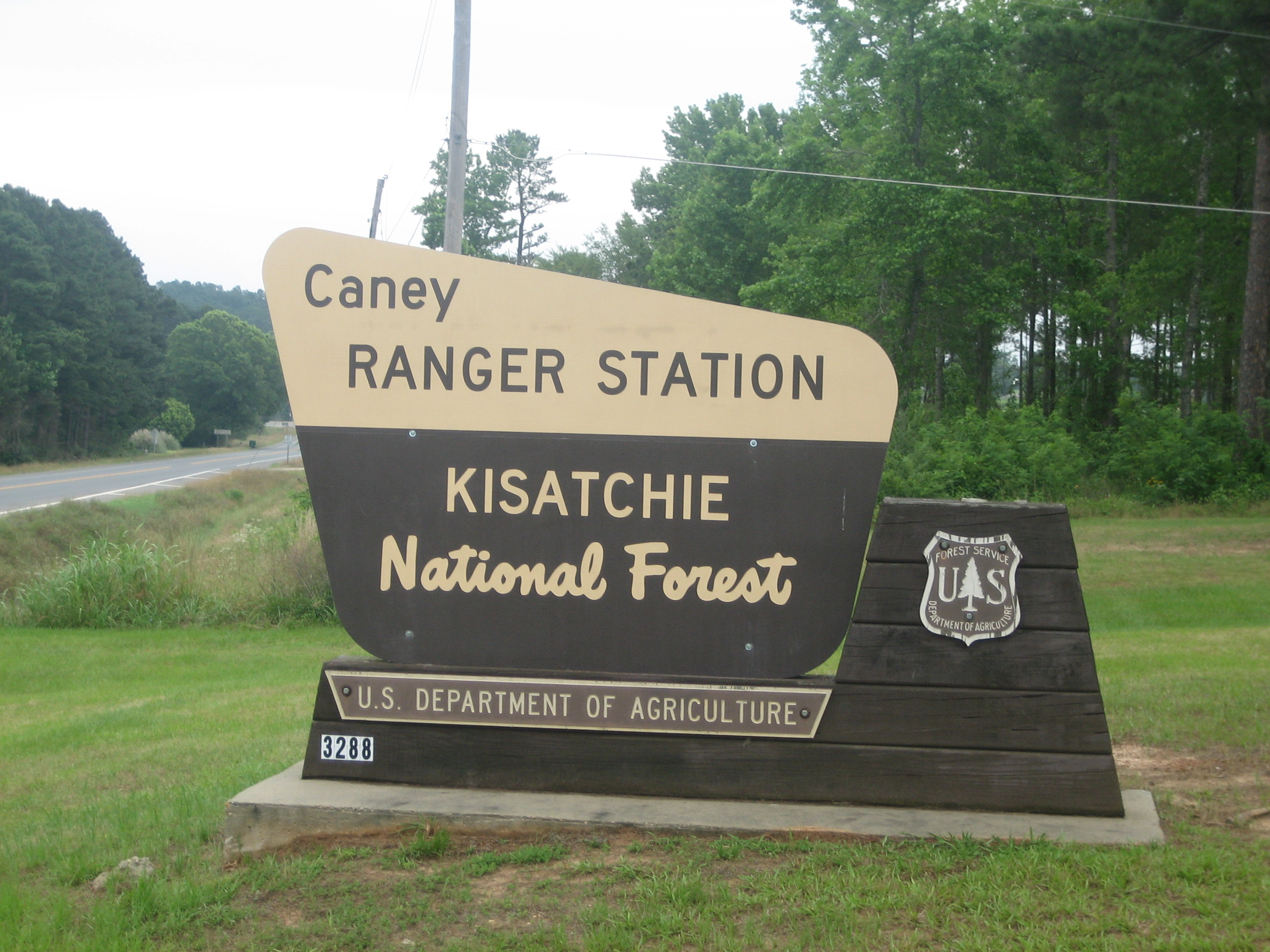 I took photo on May 26, 2009.